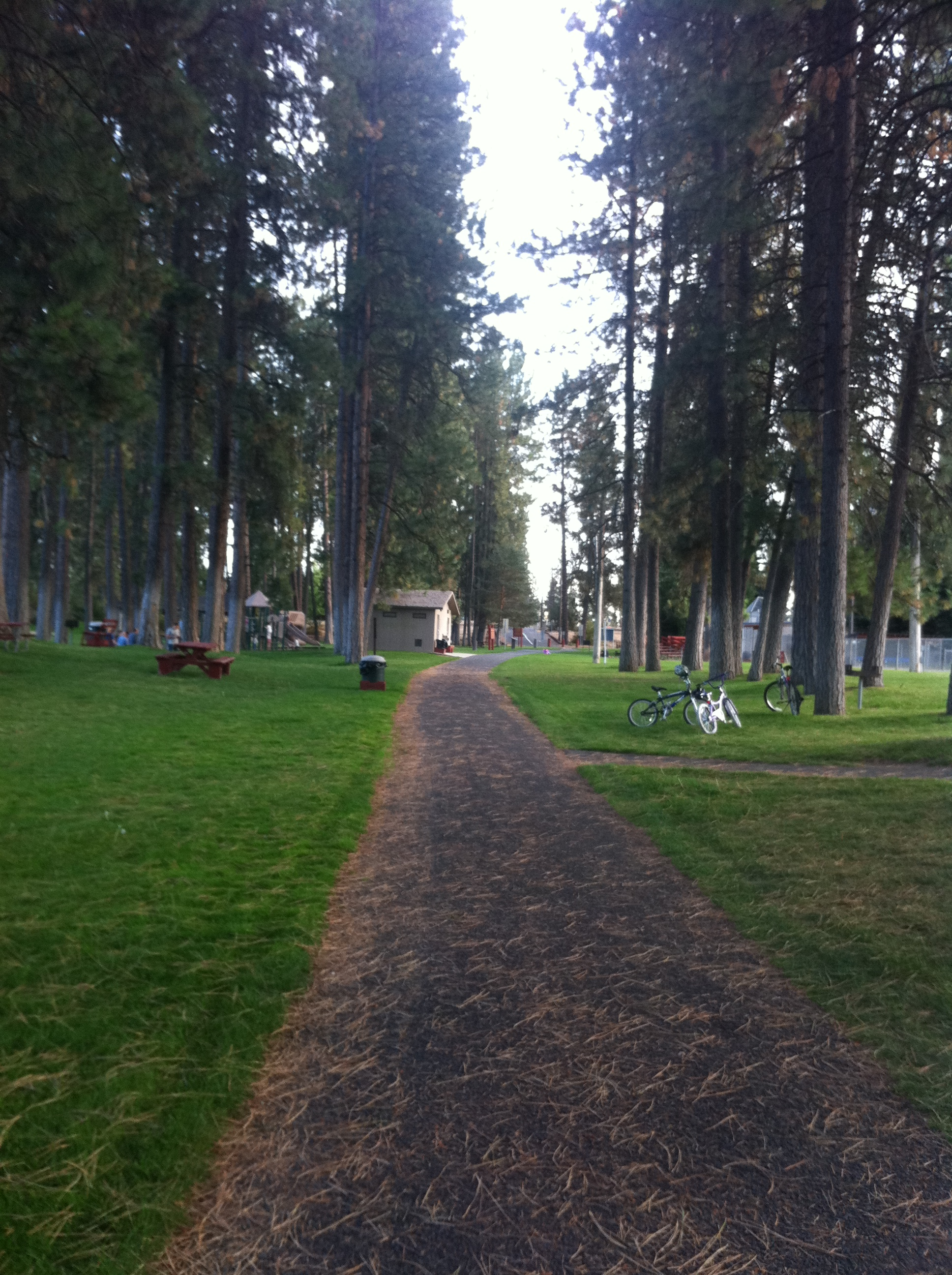 Medical Lake waterfront park (access trail).